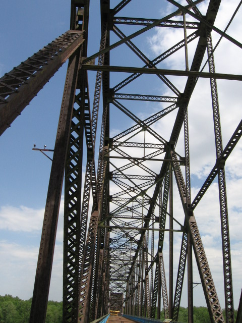 Chain of Rocks bridge, Chouteau Island side